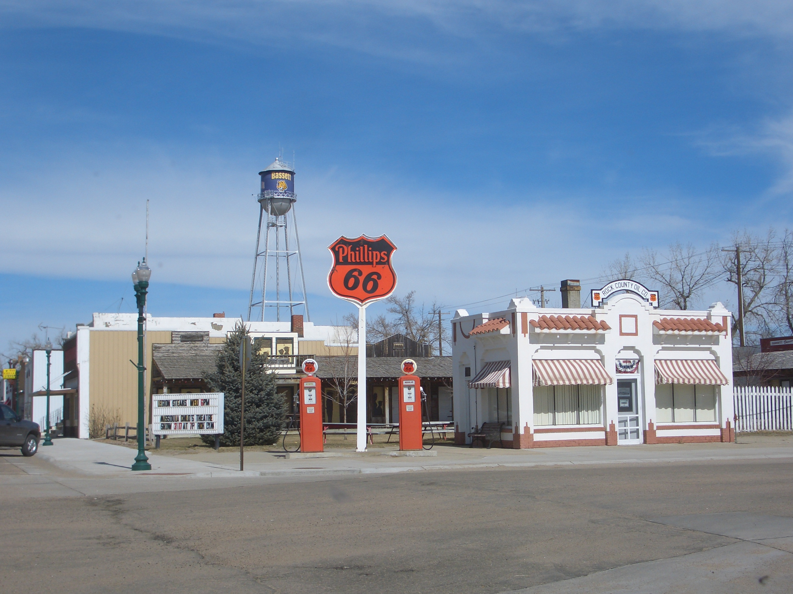 Old "static Museum replica non functional" Phillips 66 gasoline station in Bassett, Nebraska, USA. This is a non functional store front with replica and refurbished parts to make it look like a gas station. It has not been a gas station for 40 years. 20 years ago it was privately owned and used as a storage facility for junk of the owner. Approximately 1997 it was purchased by a Bassett tourist council and refurbished to look like it did in the 1950's & 60's.